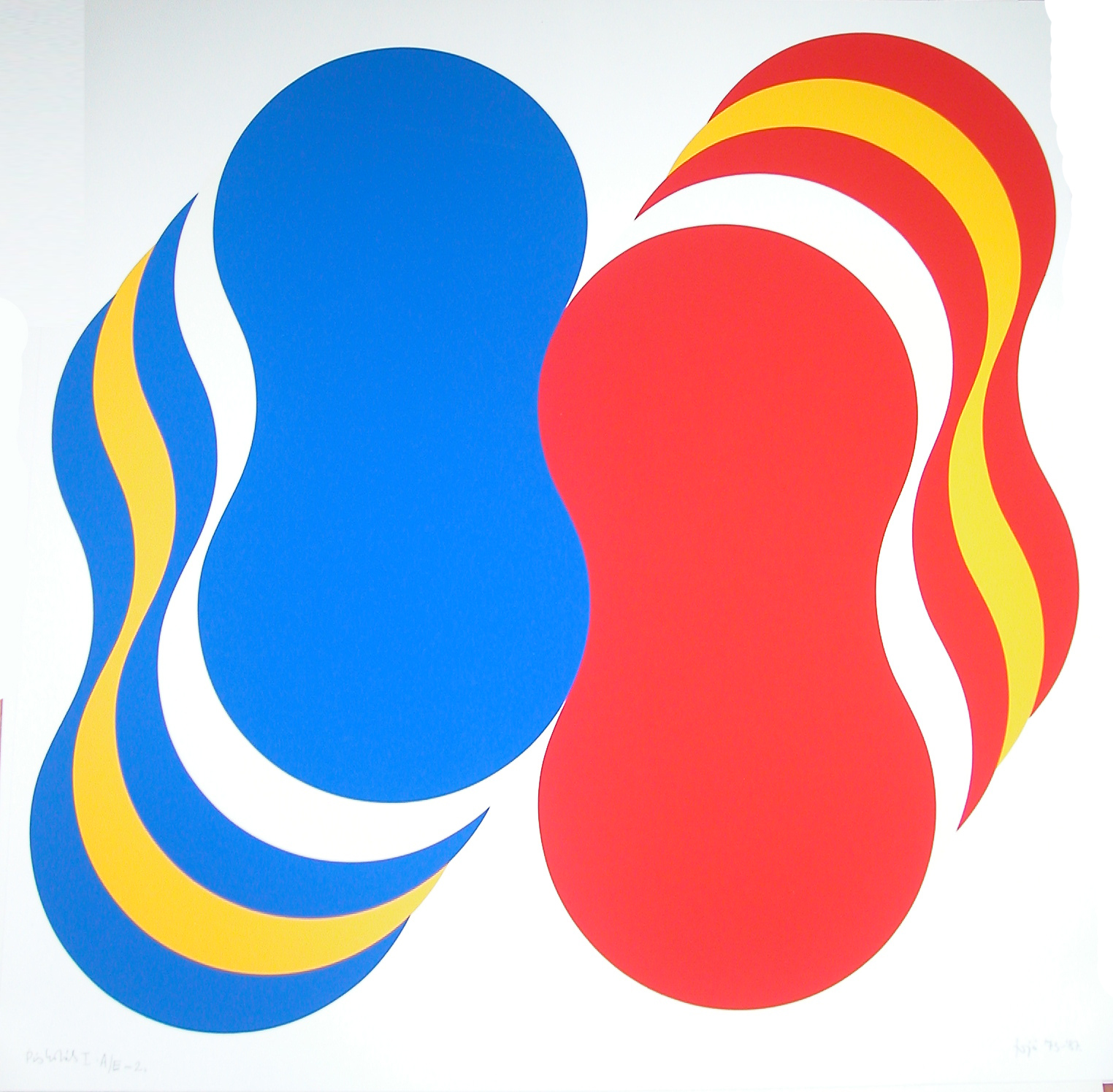 Finger-biscuits 3